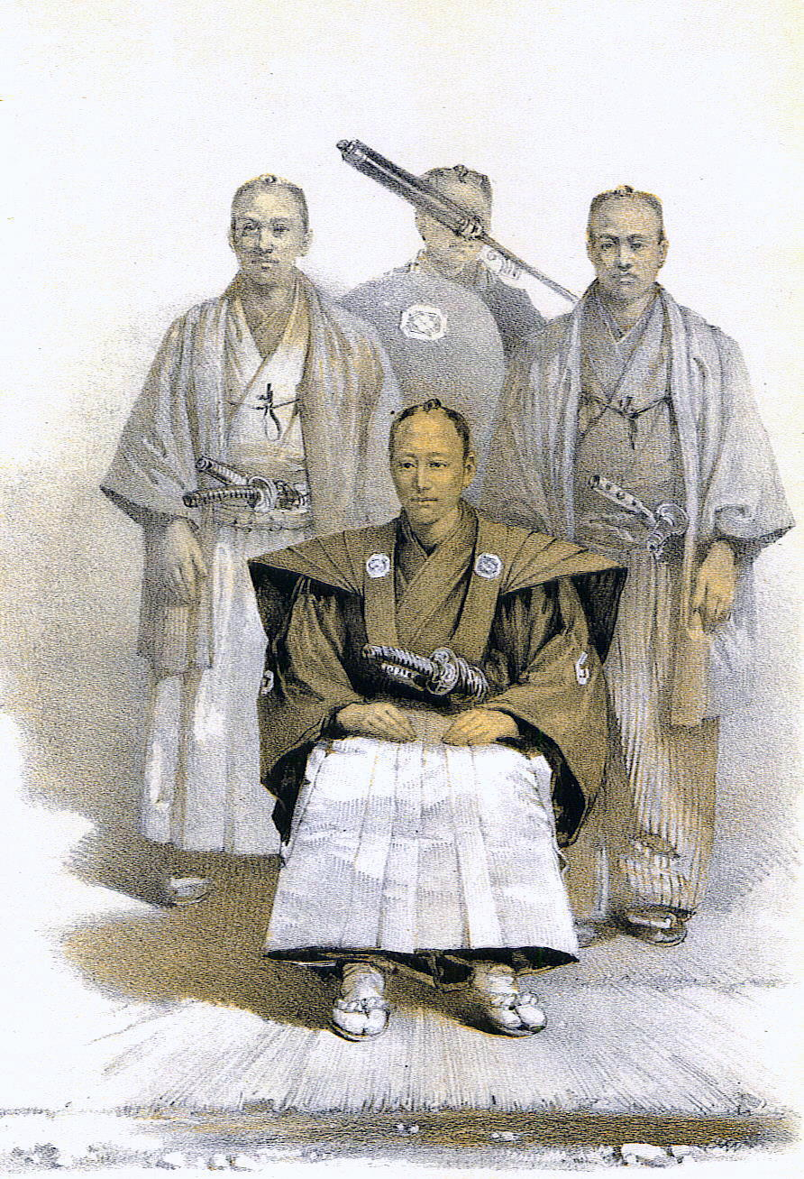 Print is entitled "Deputy of the Prince of Matsmay." Note that Japanese mon of figure standing in the back is recognizable as that of Matsumae clan; the mon on clothing of seated figure is less clearly drawn, but recognizable in context as Matsumae. This is an original 1850s print: Very small print reads "Dag. by E. Brown" at bottom left; and "Ackerman Lith. 379 Broadway N.Y." at bottom right